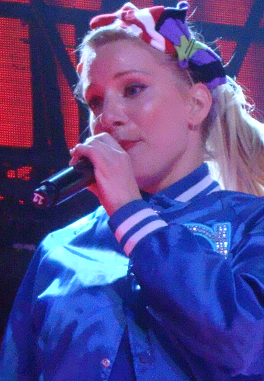 Heather Morris in character as Brittany Pierce on the Glee Live! In Concert! tour 2011.